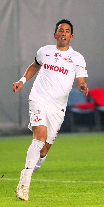 Lucas Ramón Barrios